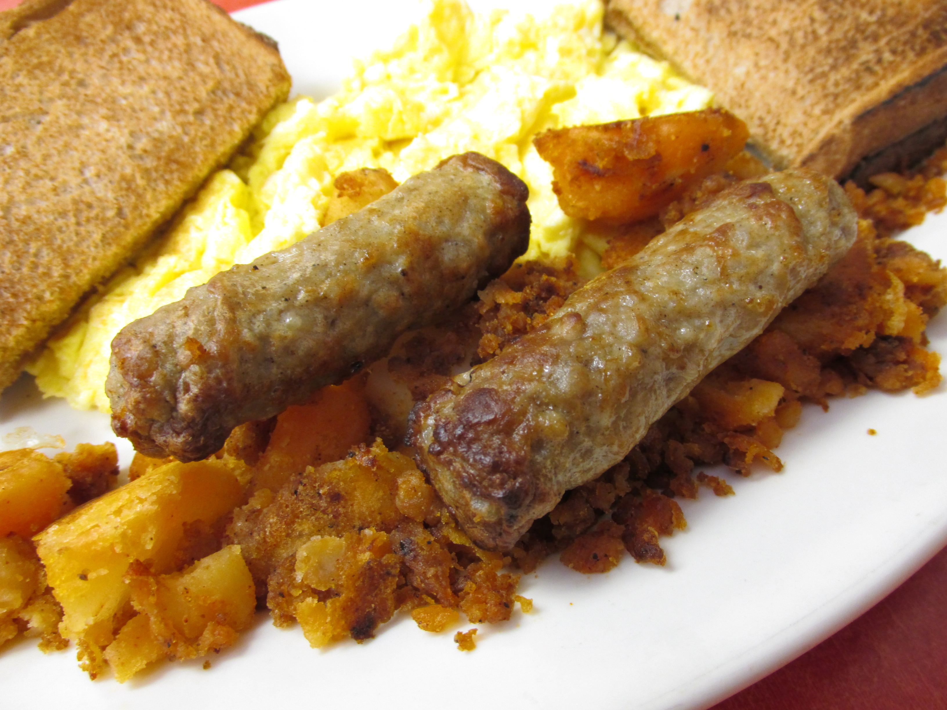 Breakfast Sausage, Ye Olde Cottage Restaurant, Weston Massachusetts